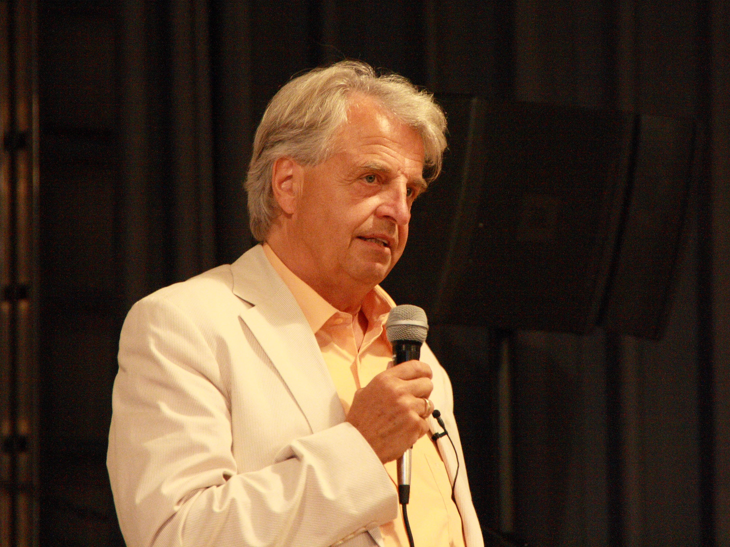 Clemens Kuby at a presentation of his film Heilung - das Wunder in uns by Europäisches Institut für angewandte Ethik at the Dorfgemeinschaftshaus in Neunkirchen, Bad Mergentheim.